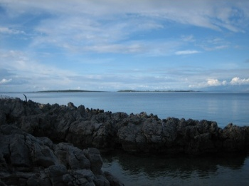 Vele Orjule i Male Orjule islands as seen from Sveti Petar Island, Northern Adriatic, Croatia. / Vele i Male Orjule; pogled sa Svetog Petra.